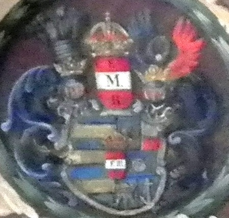 The coat of arms of Jan Jáchym Slavata of Chlum and Košumberk painted in 1686 on the ceiling of the room of the Land Rolls in the Old Royal Palace at the Prague Castle.